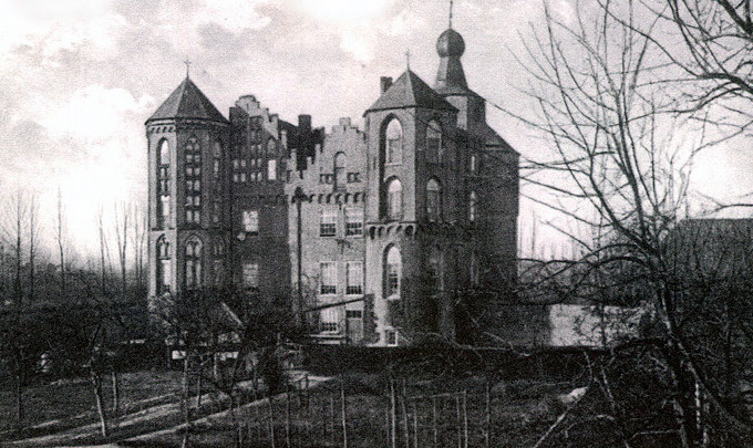 Family seat of the Croy Family in the Netherlands